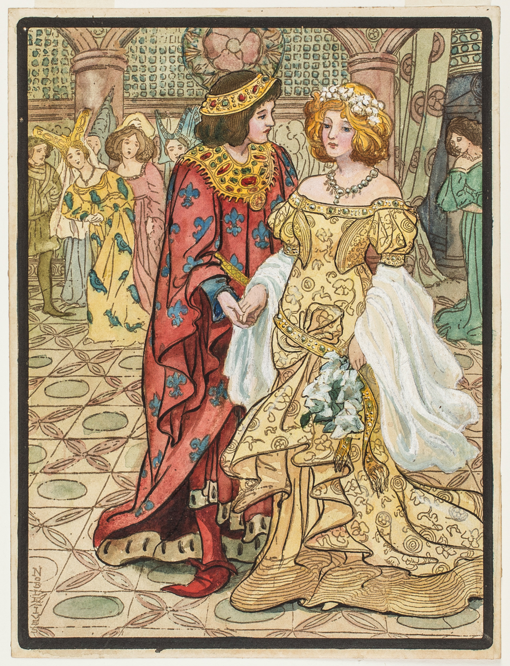 Original illustration for Cinderella depicting Cinderella and the prince at the ball. Signed "Noble Ives."